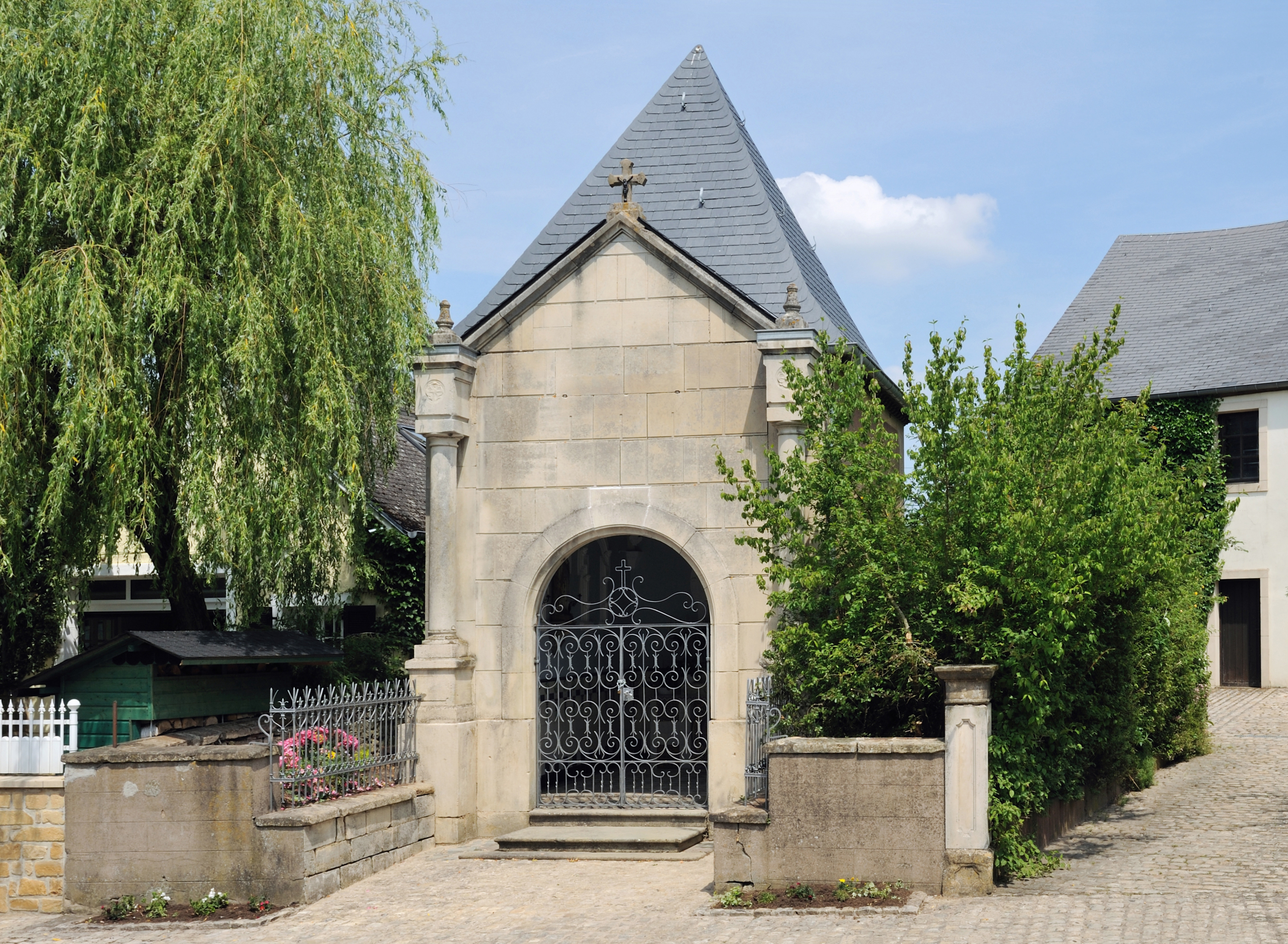 Kehlen, Luxembourg: chapel rue d'Olm.